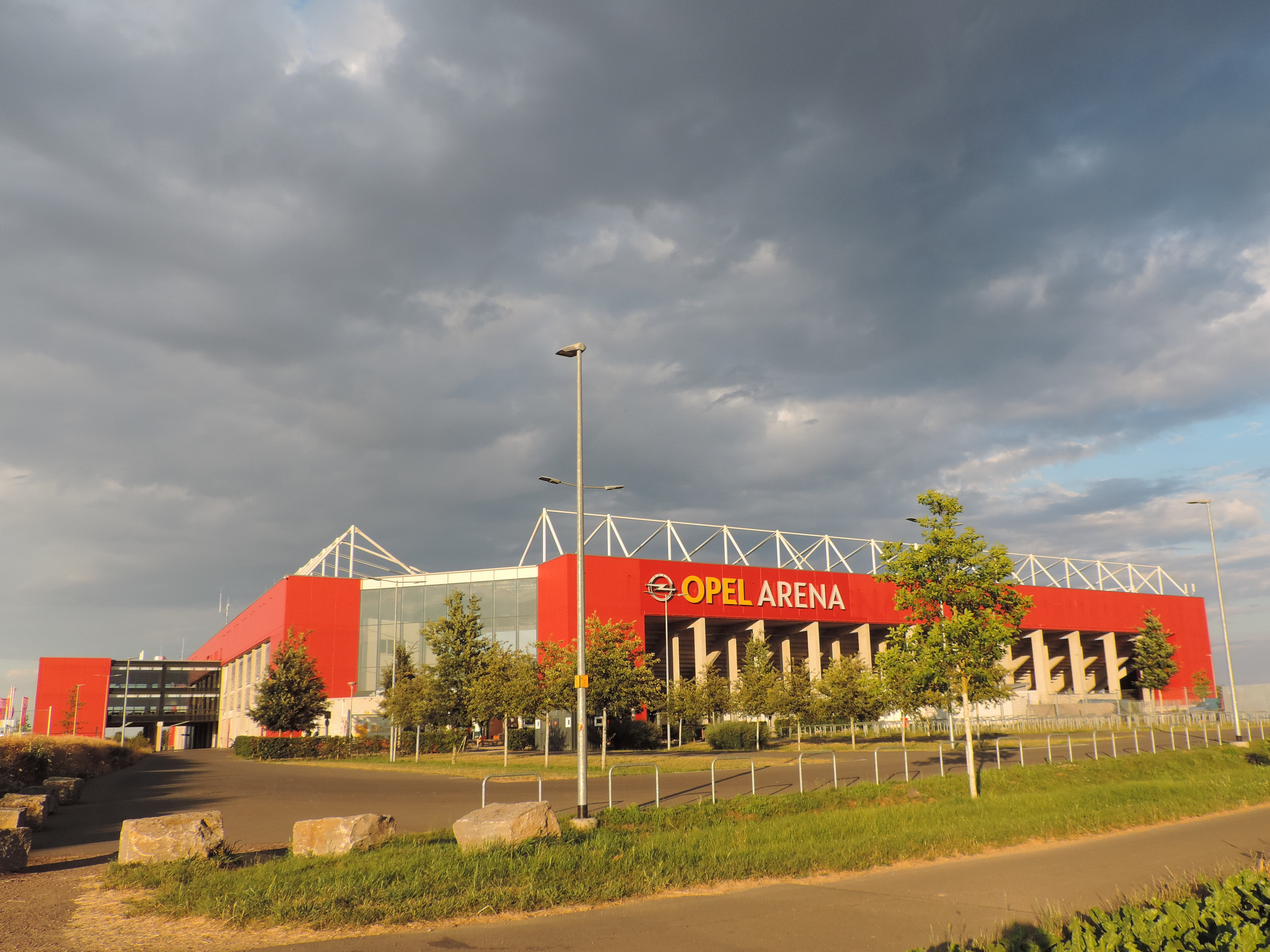 Opel Arena, new sponsor name